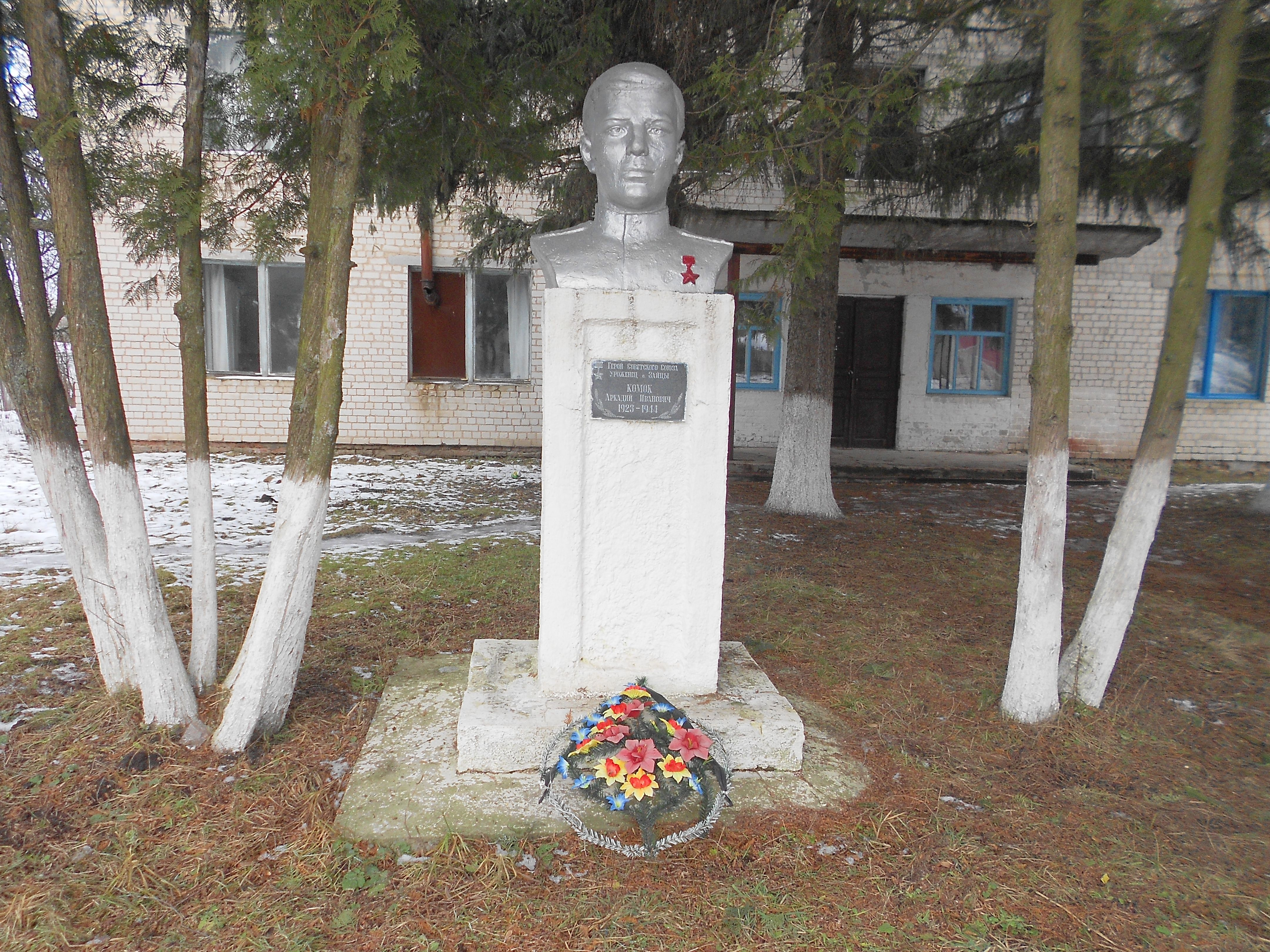 v.Levkovychi, Chernihiv Raion, Chernihiv Oblast, Ukraine